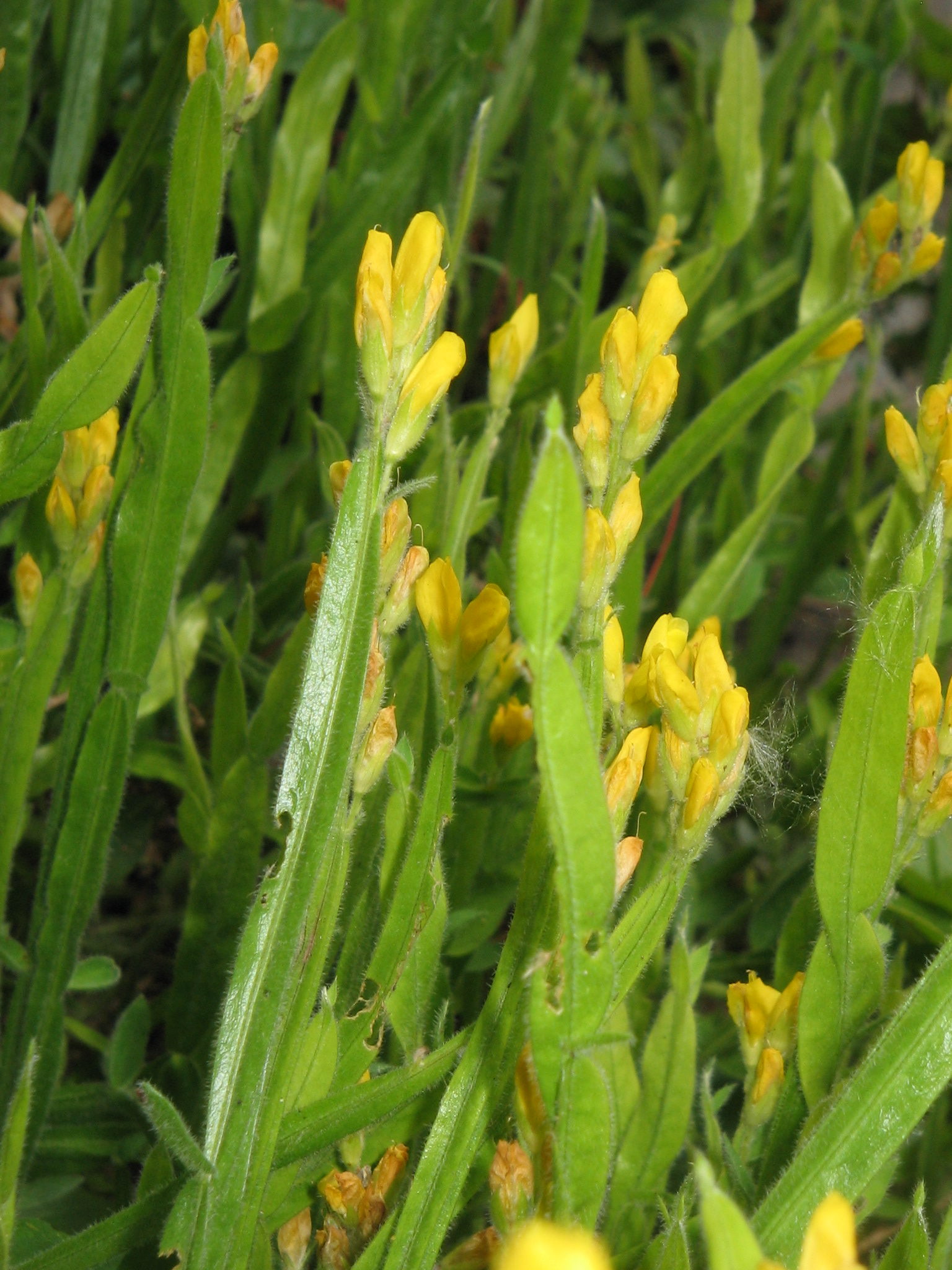 Genista sagittalis